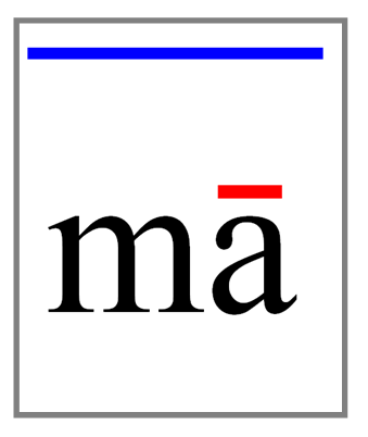 first tone of Mandarin Chinese